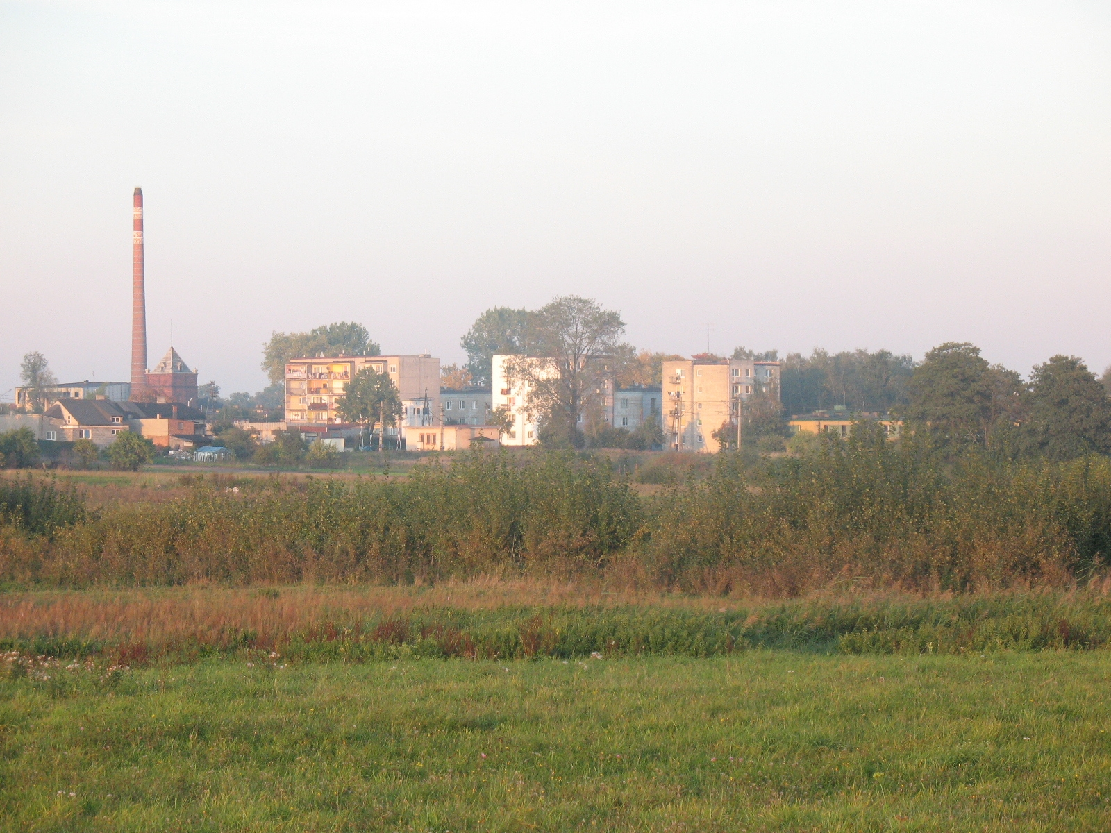 Moszczenica, powiat piotrkowski